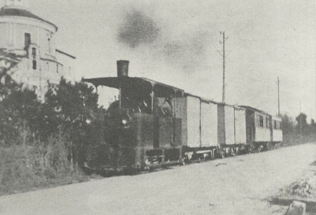 Cavaglià, Church and steam tramway